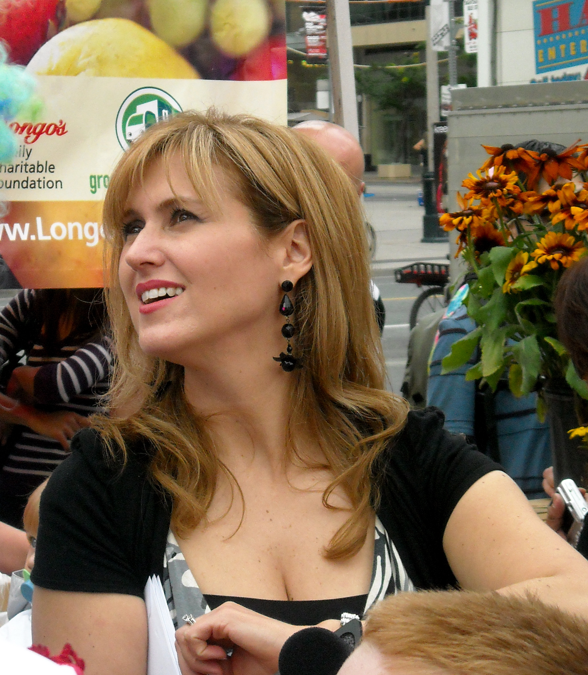 TV presenter Jennifer Valentyne. Original caption: "The Most Beautiful Face in Morning Television (Sorry, Dina.)"